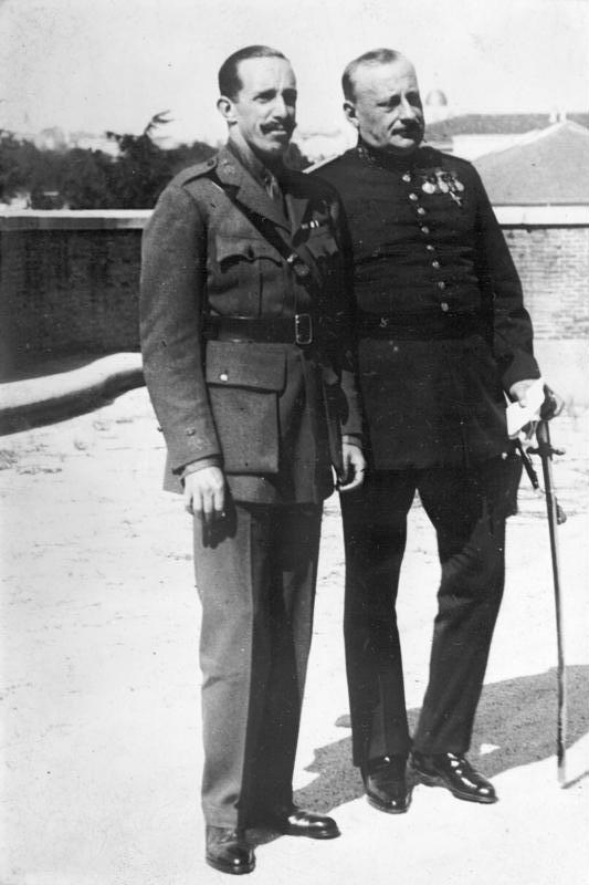 Dictatorial Prime Minister Miguel Primo de Rivera (r) and the King of Spain, Alfonso XIII (l).